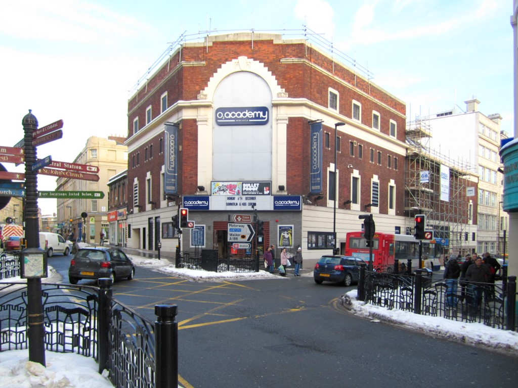 O2 Academy, corner of Westgate Road and Clayton Street